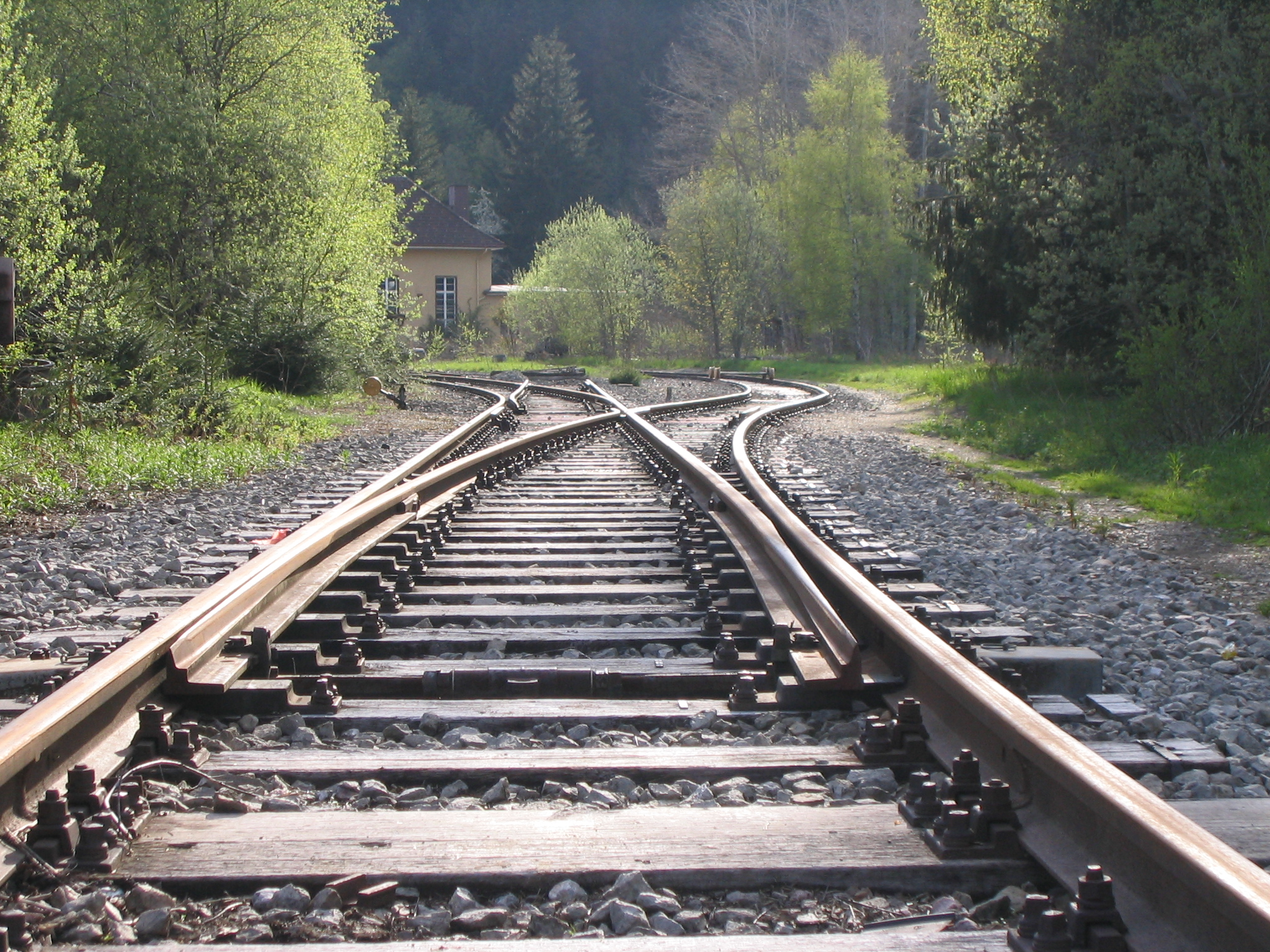 Weiche vor dem Bahnhof Titisee